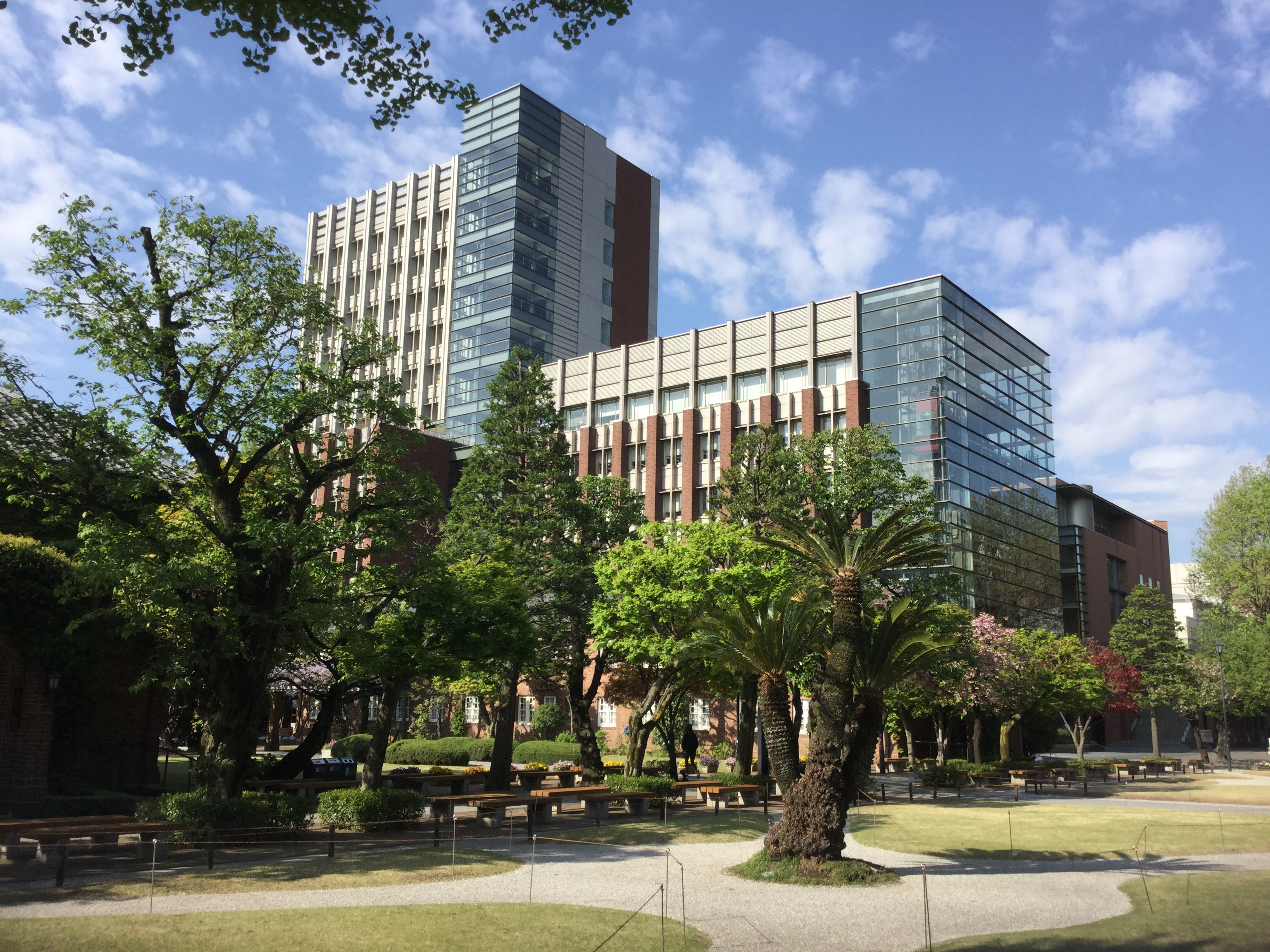 Rikkyo University, Bldg. 11, 15